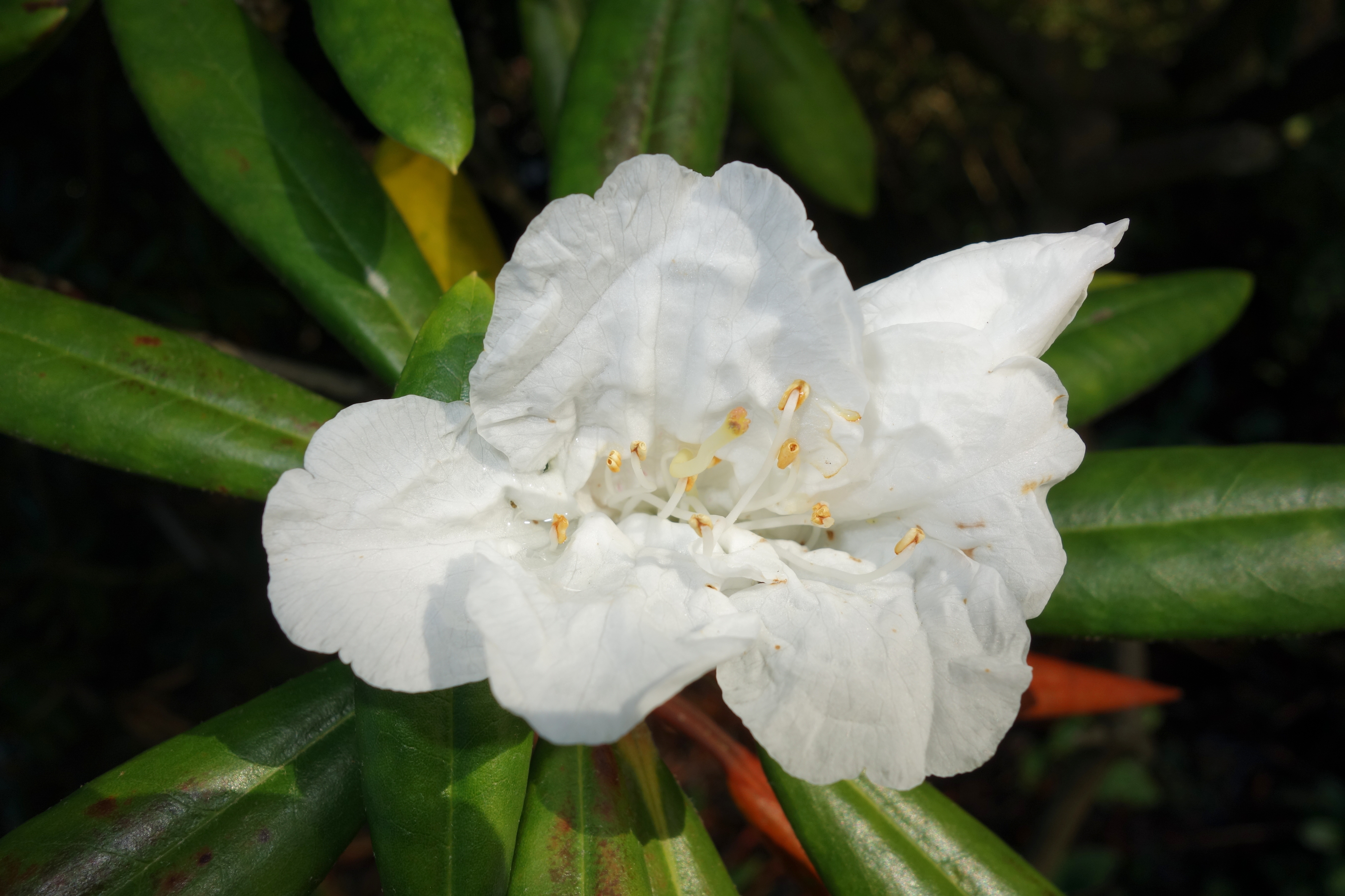 Botanical specimen in the San Francisco Botanical Garden, San Francisco, California, USA.